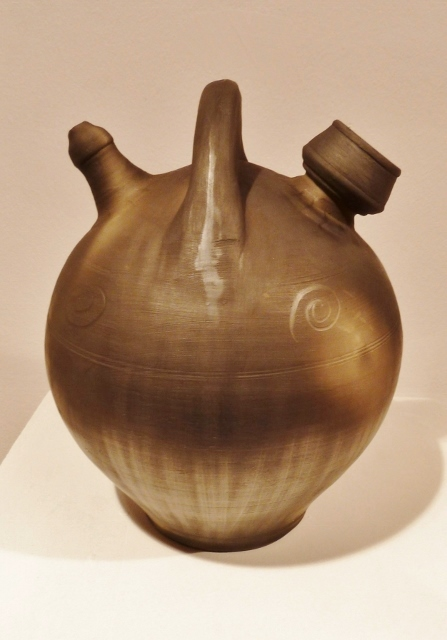 Traditional pottery (20st century) from Miranda (Avilés, Asturias), Spain.